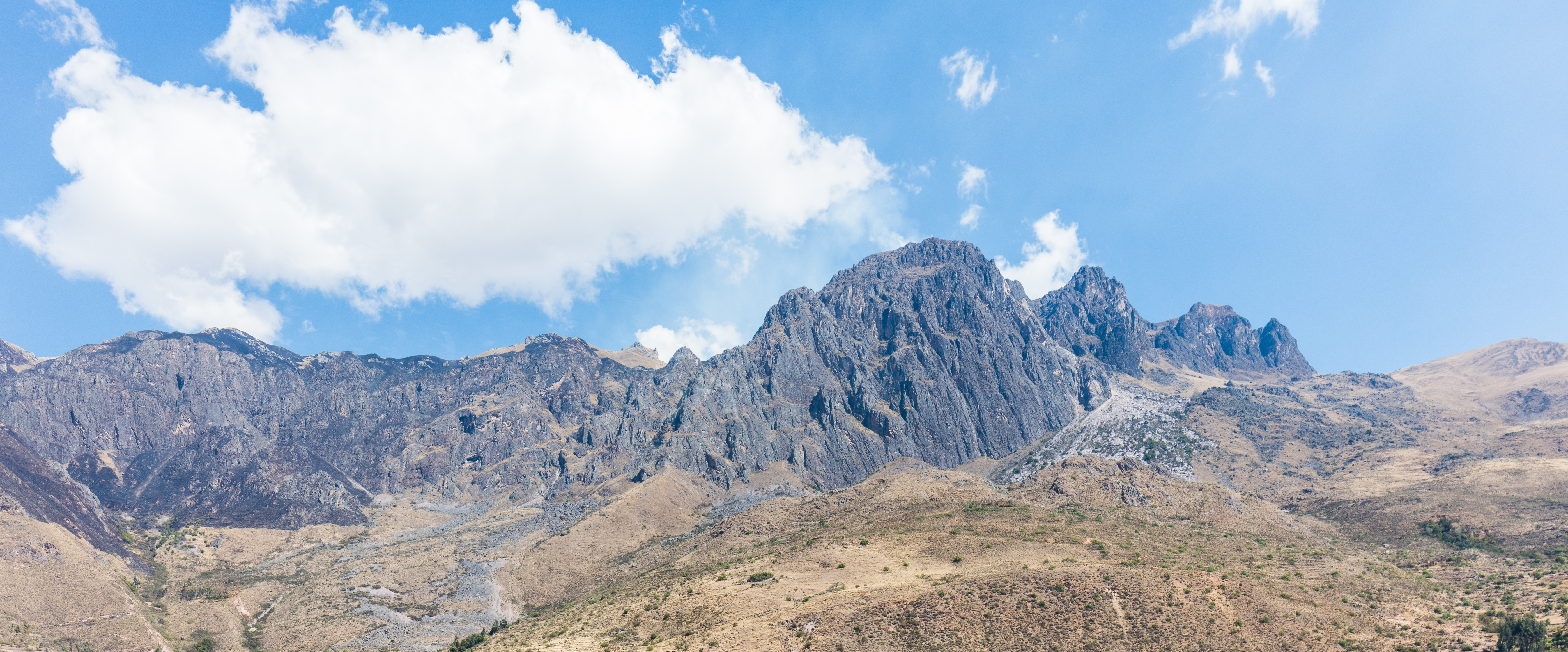 Mountains of Upper Urubamba valley, Cuzco, Peru